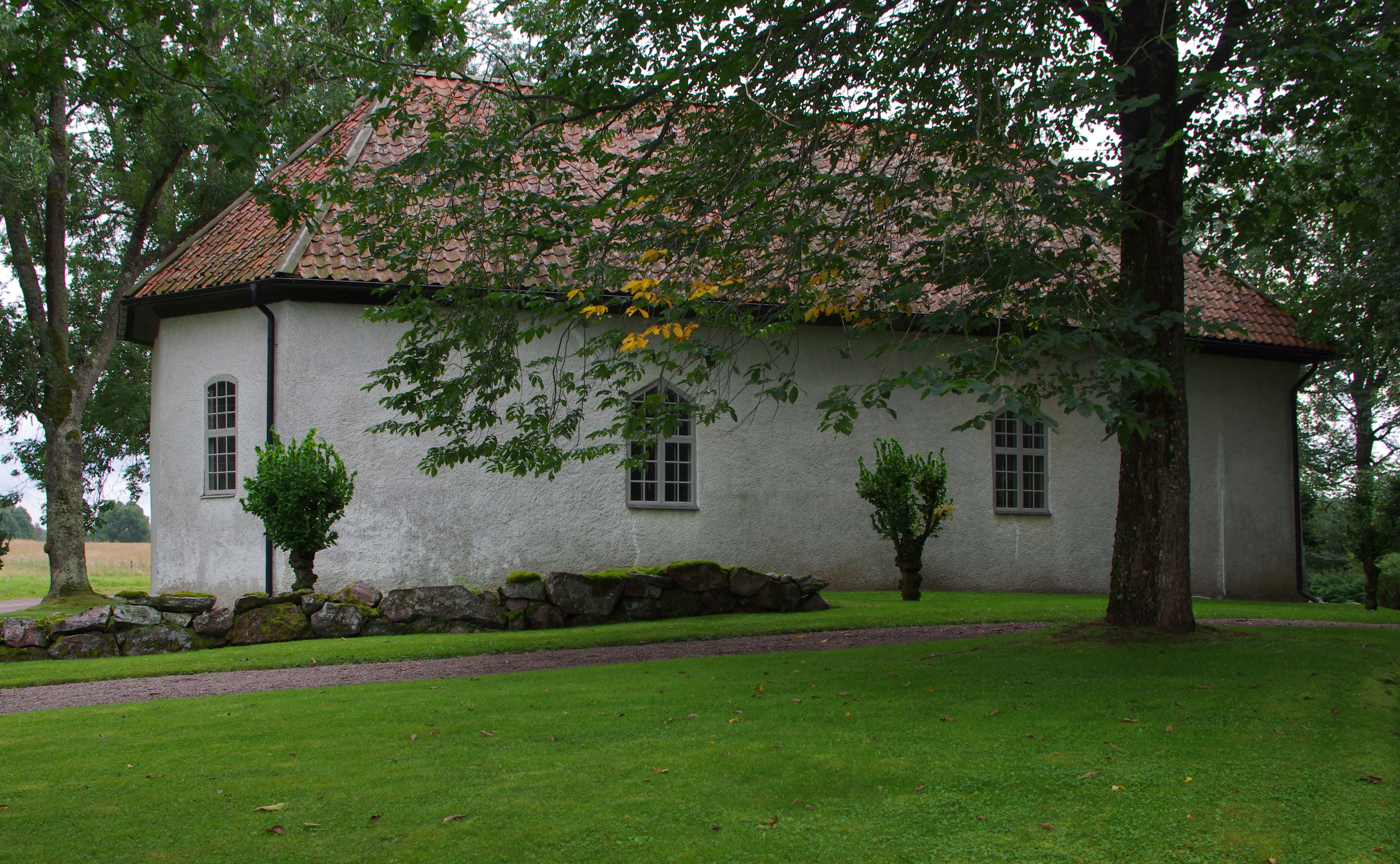 Hagelbergs kyrka (english:Hagelberg church) in Västergötland and Skövde municipality in Västragötaland county, Sweden.